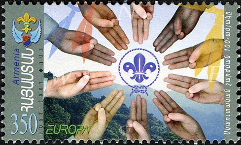 Stamp of Armenia